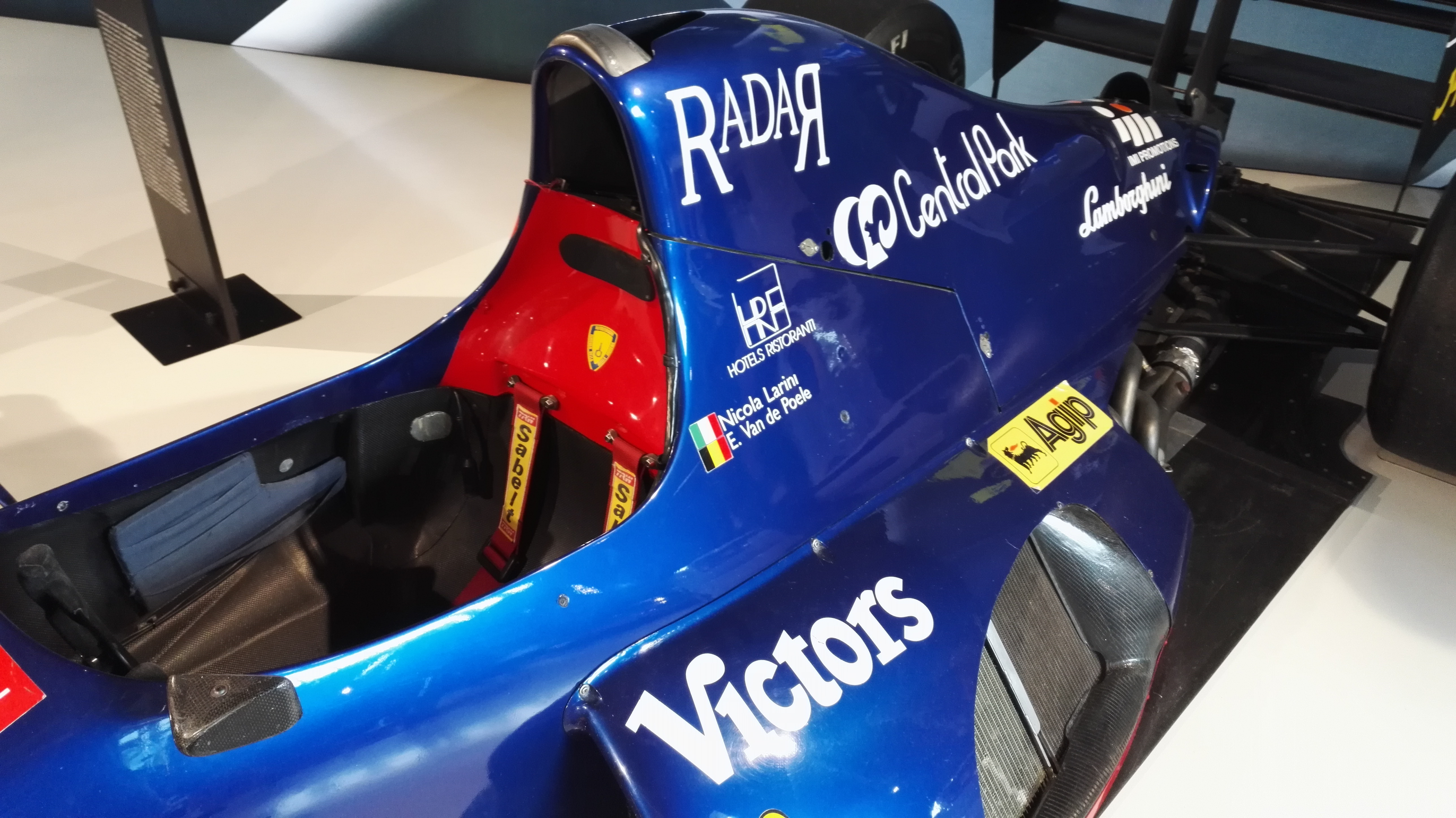 Taken by myself in April 2018 in the Museo Lamborgini.